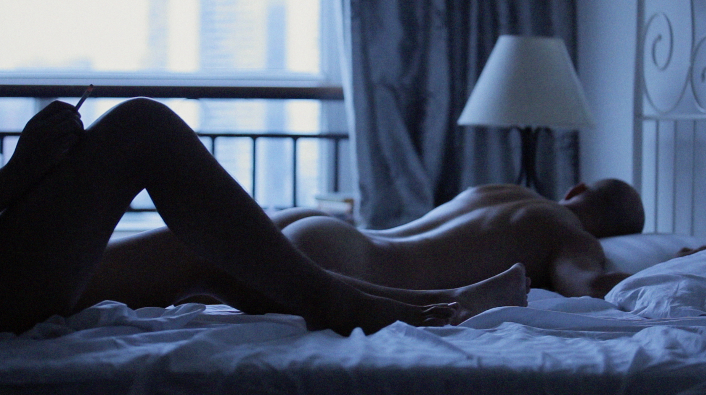 Still 1 from the film Floating Melon (Fu Guo, Sandía Amarga) directed by Roberto F. Canuto & Xu Xiaoxi in 2015.